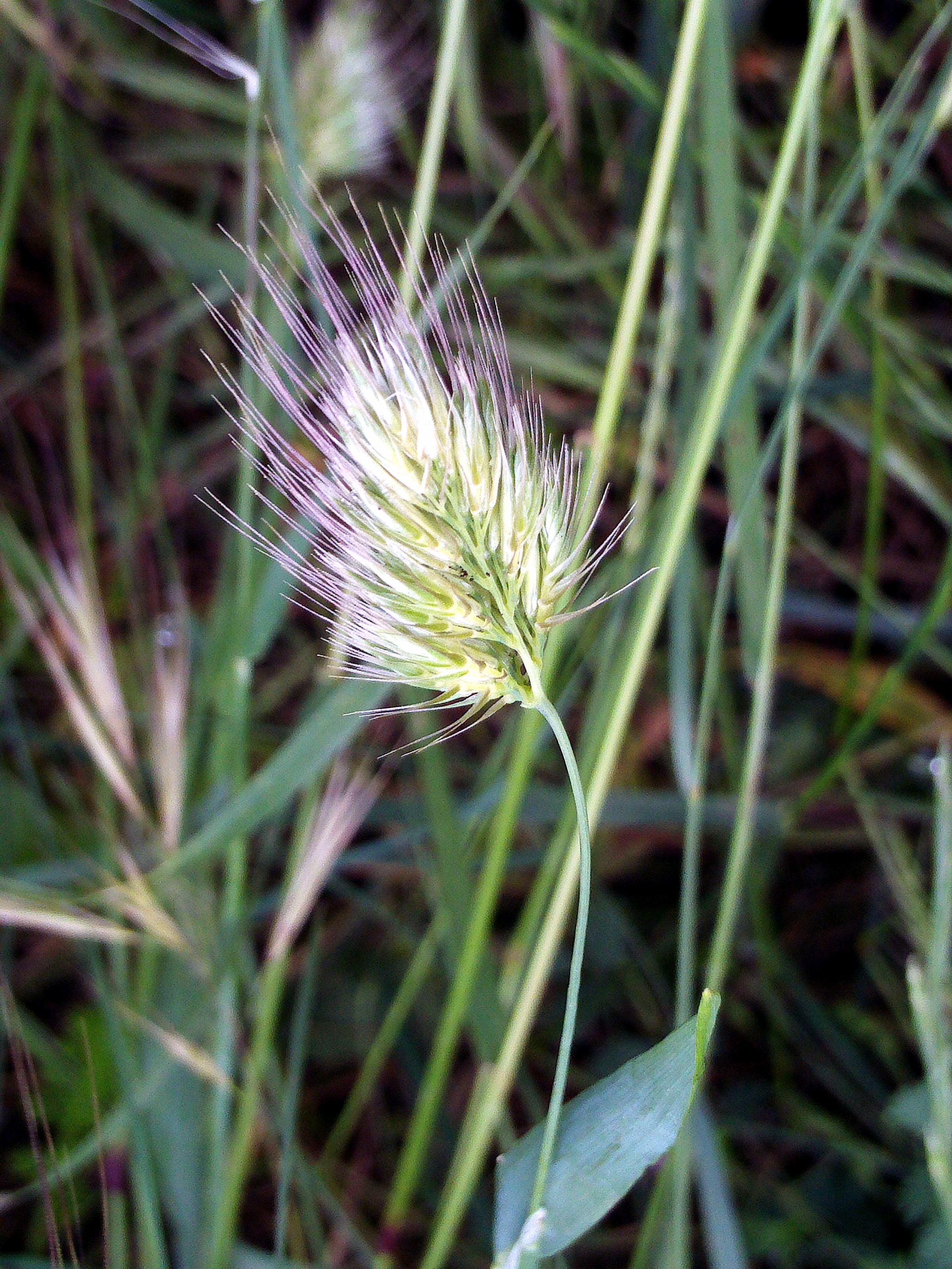 Cynosurus echinatus spike, Dehesa Boyal de Puertollano, Spain